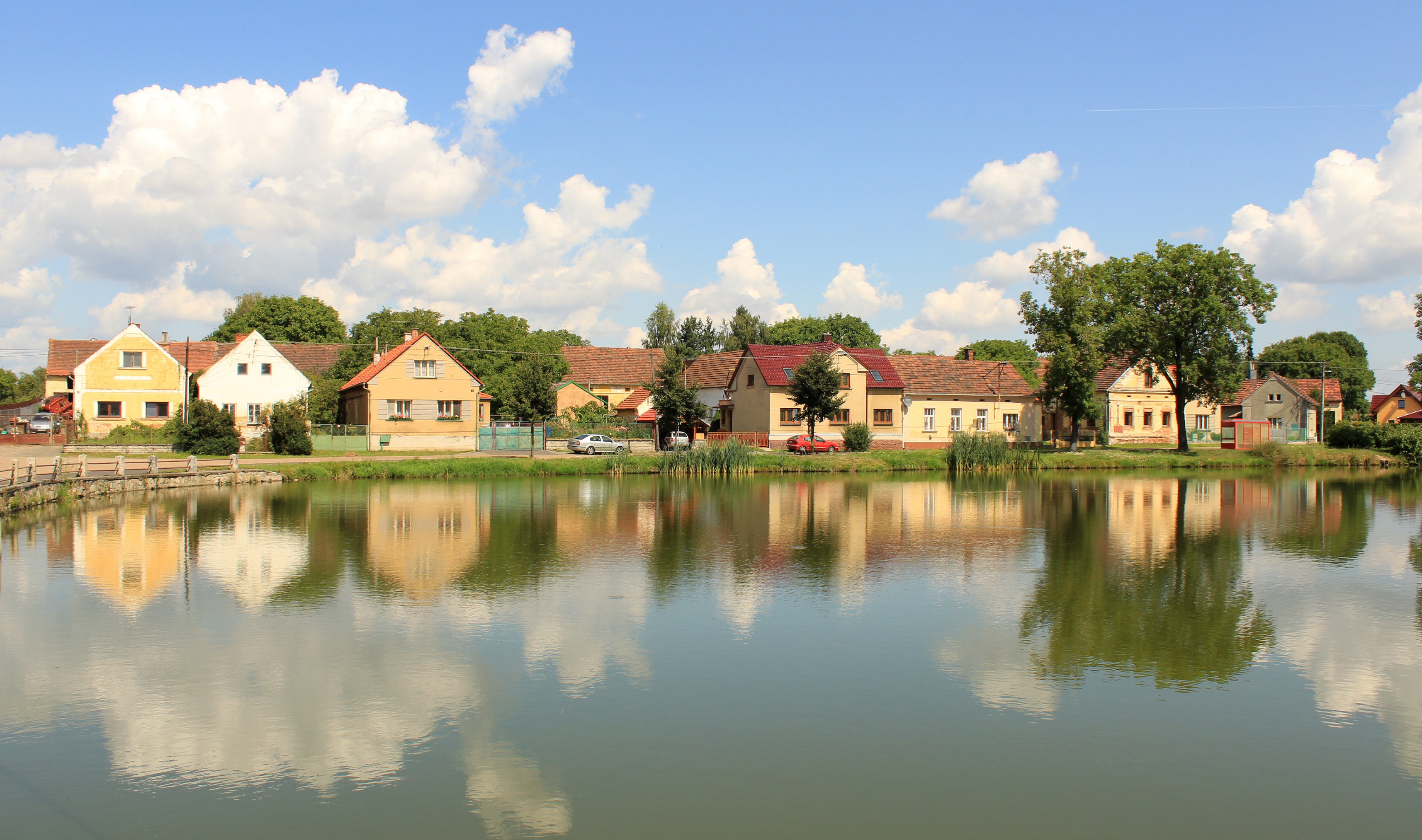 Great pond in Močerady village, Czech Republic.